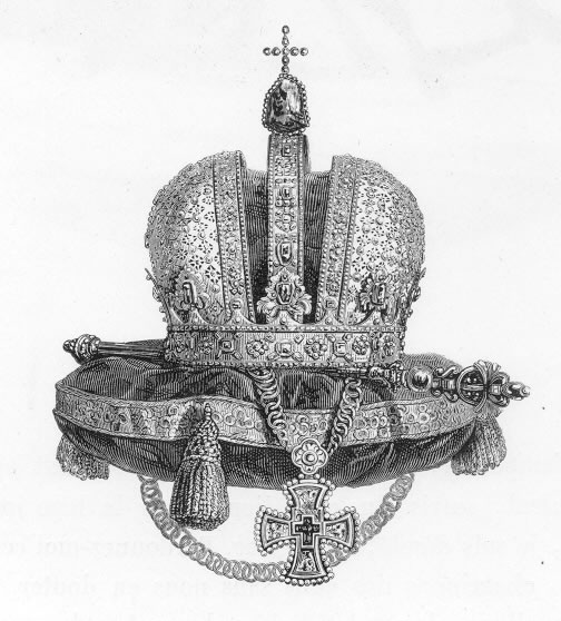 Book Illustration from the "Voyages and travels, or, Scenes in many lands : with eight hundred and fifty illustrations on wood and steel of views from all parts of the world, comprising mountains, lakes, rivers, palaces, cathedrals, castles, abbeys, and ruins, with original descriptions by the best authors". Edited by Leo de Colange. — Boston E. W. Walkers & Co, 1887. Artist Hippolyte de la Charlerie (1827-1869). Engraved by François Pannemaker (1822-1900).